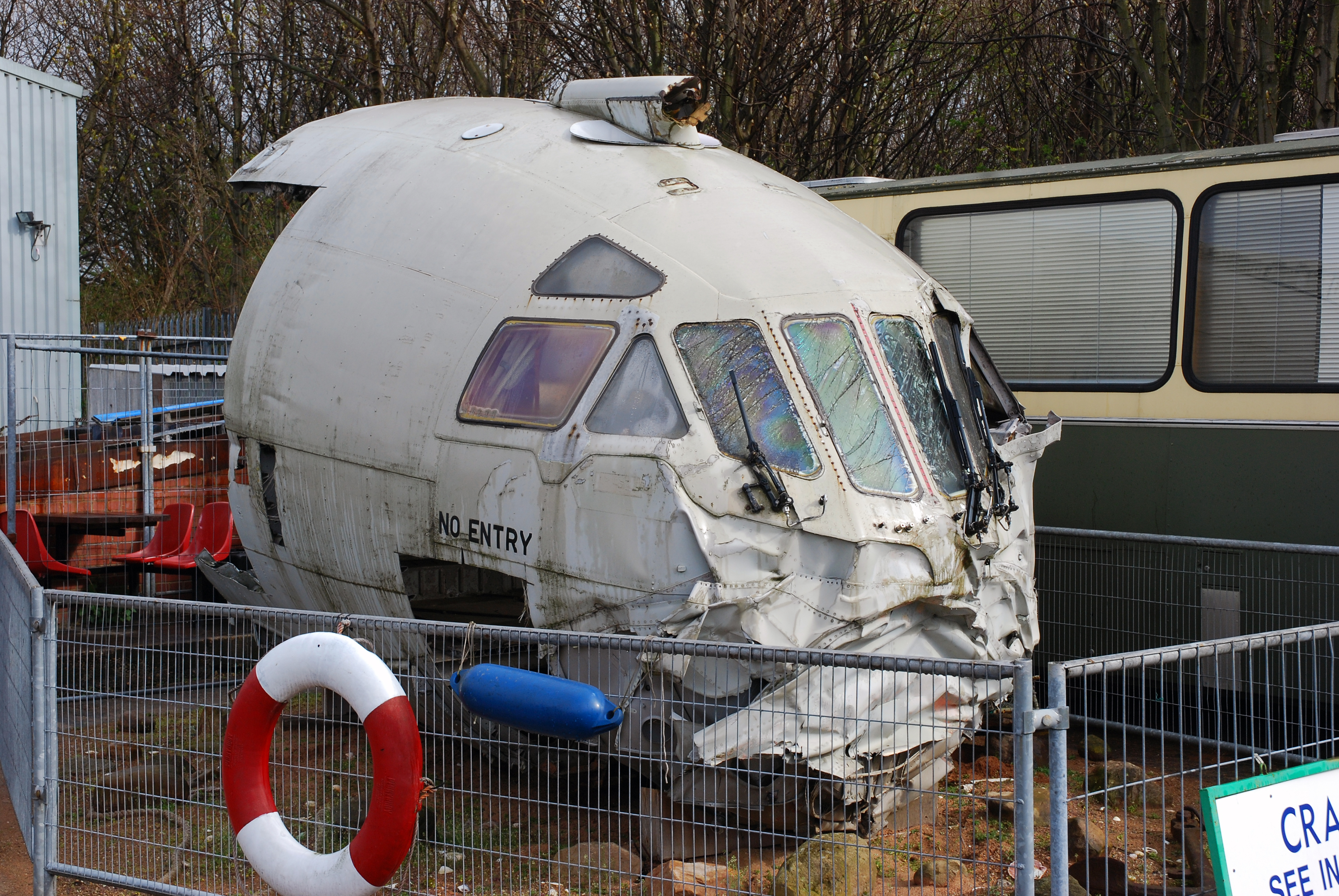 ...XW666,crashed into Moray Firth,Aeroventure,Apr 2008